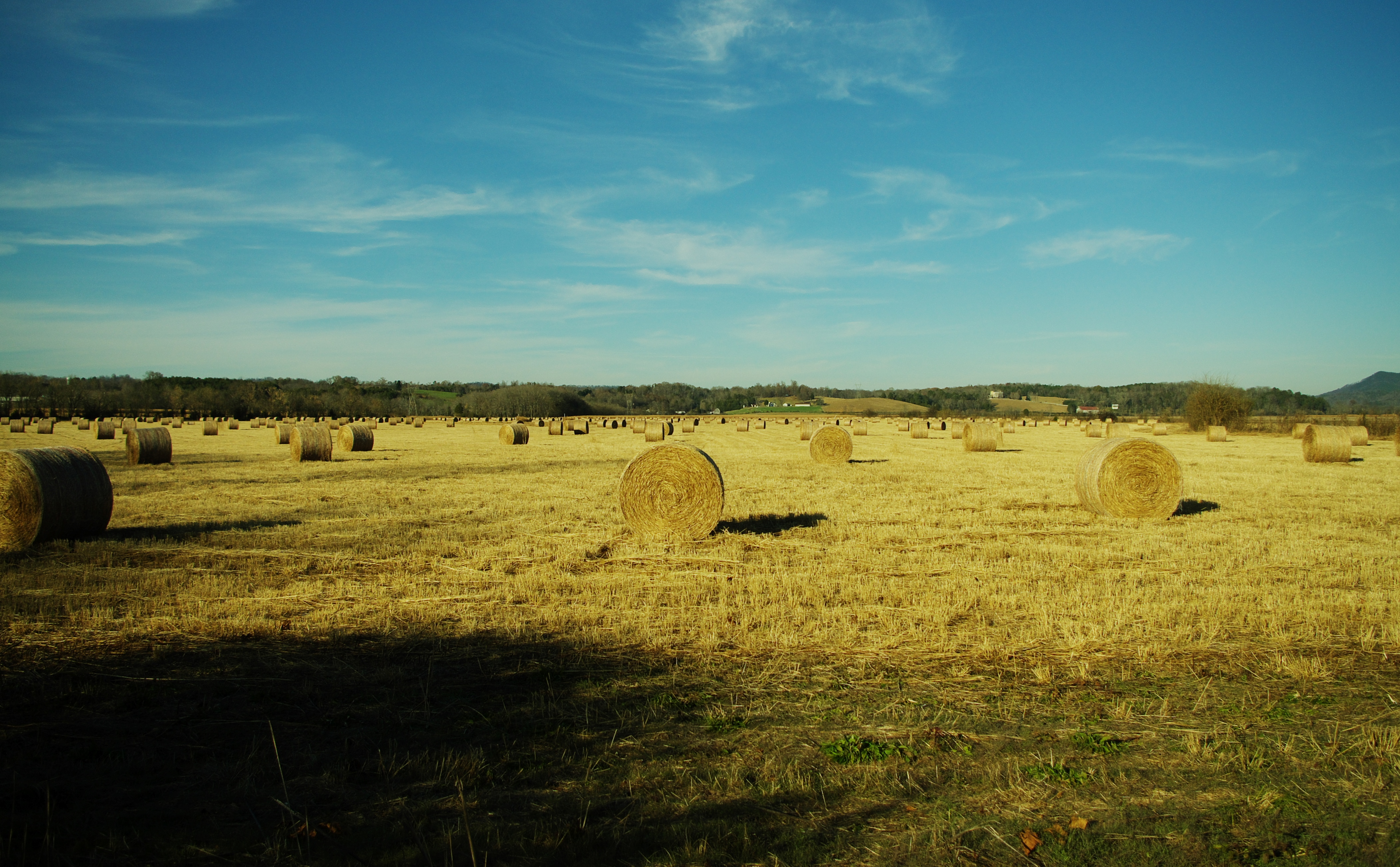 Round hay bales in Tellico Plains, Tennessee, United States.